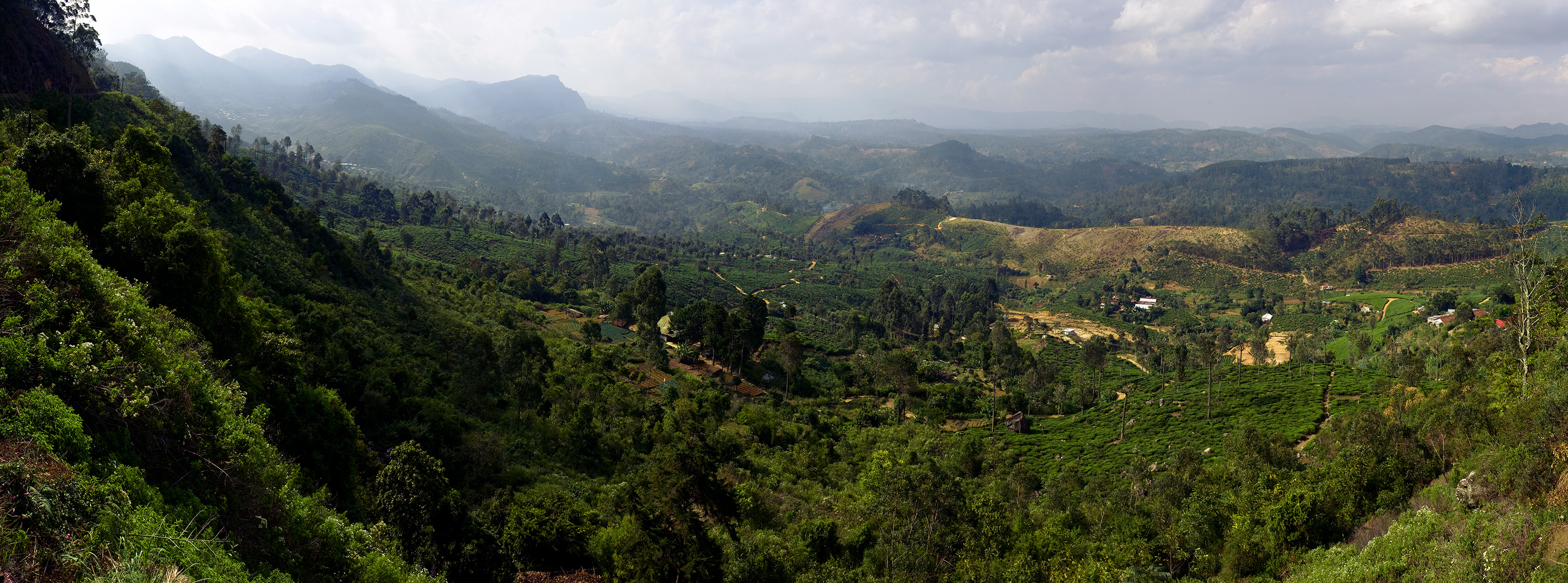 Hill Country scenery near Idalgashinna